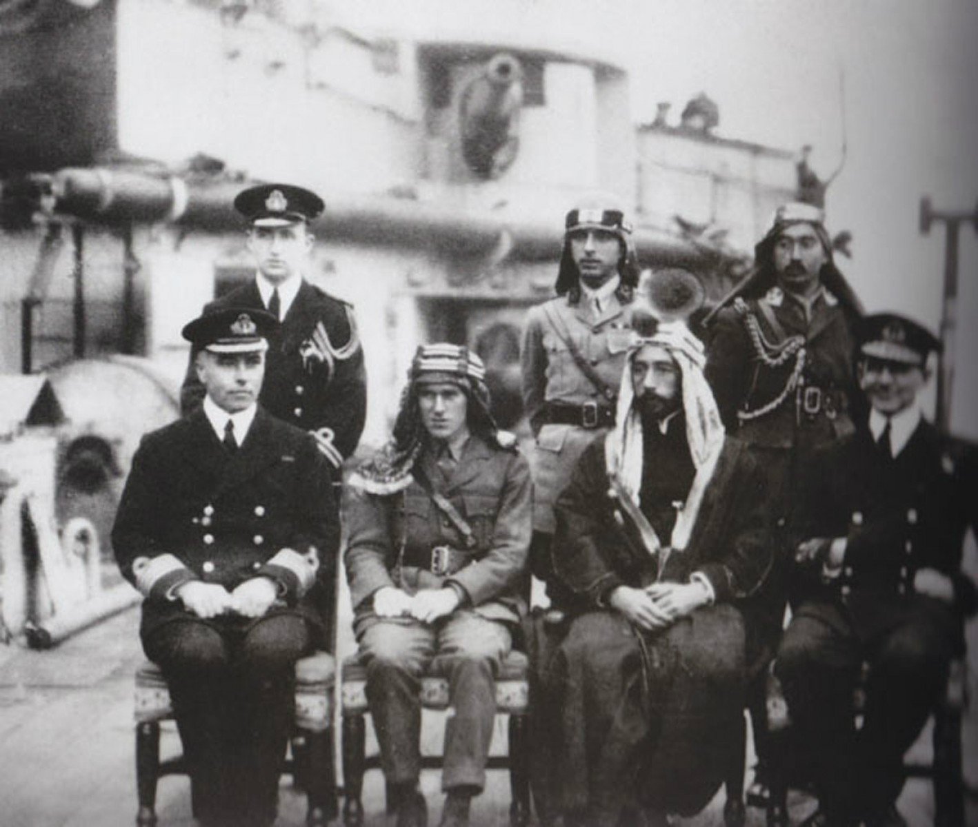 Emir Faisal; Lt. Col. T.E. Lawrence during a tour in UK, around 1918, on the HMS Orion.